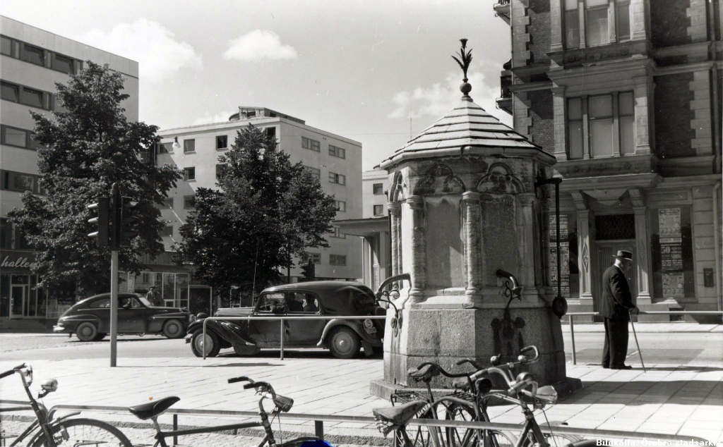 The pumphouse at Våghustorget, Örebro, Sweden